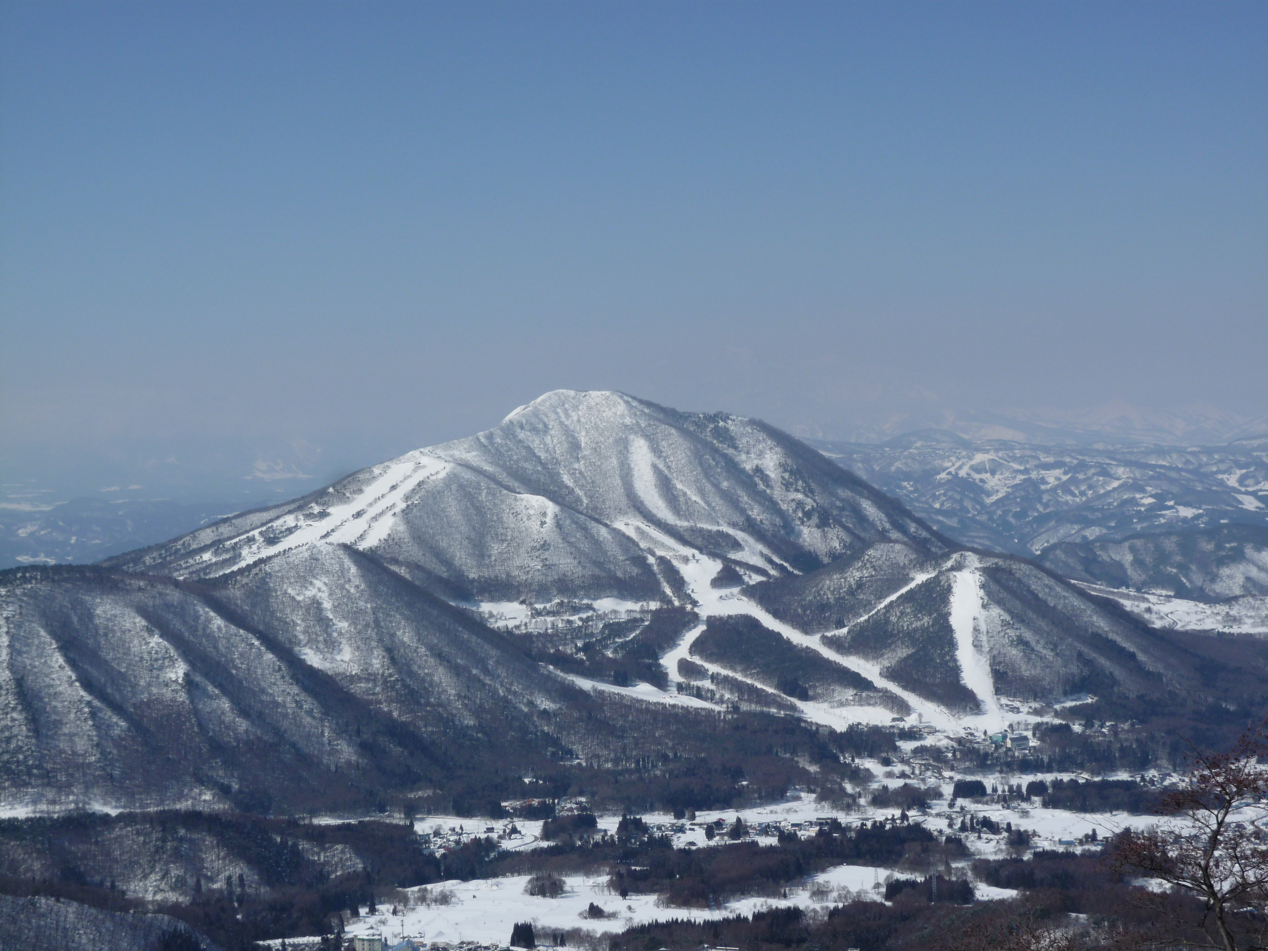 Mount Kosha (also called Mount Takashiro) in Nagano, Japan. This photo is a view from Ryuoo Ski Park